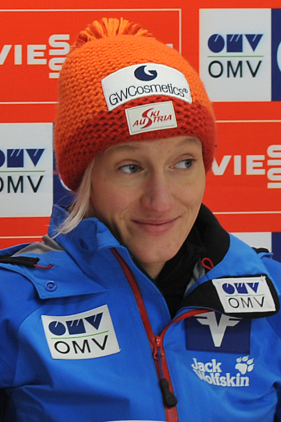 FIS Ski Jumping World Cup Ladies 14th World Cup Competition Normal Hill Individual Hinzenbach (AUT) Sun 2 Feb 2014: Daniela Iraschko-Stolz